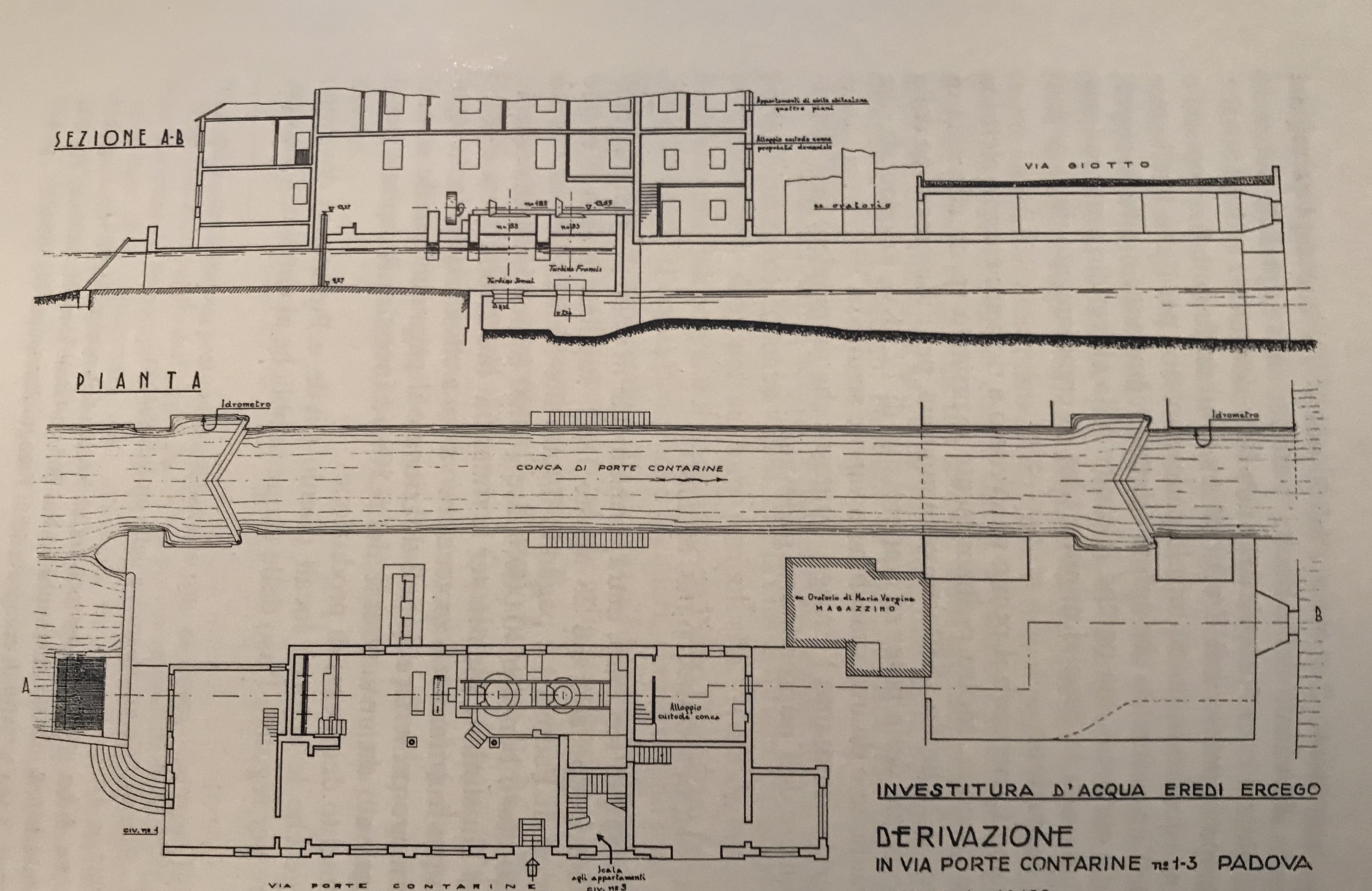 Pianta e sezione della Conca e del Mulino di Porte Contarine